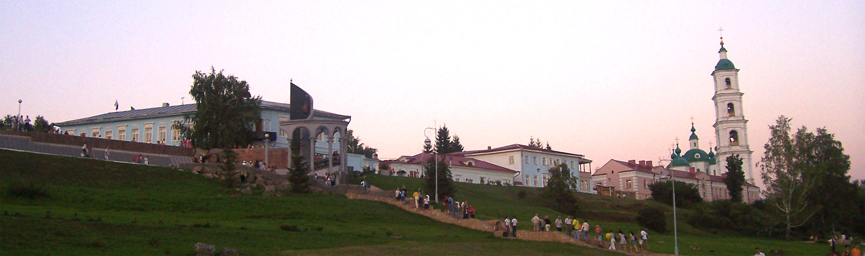 The city of Elabuga, street Quay